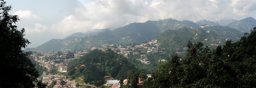 Panoramic view of Mussoorie, Uttarakhand.